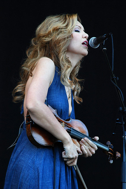 Alison Krauss performing with Robert Plant at the 2008 Bonnaroo Music Festival in Manchester, TN.